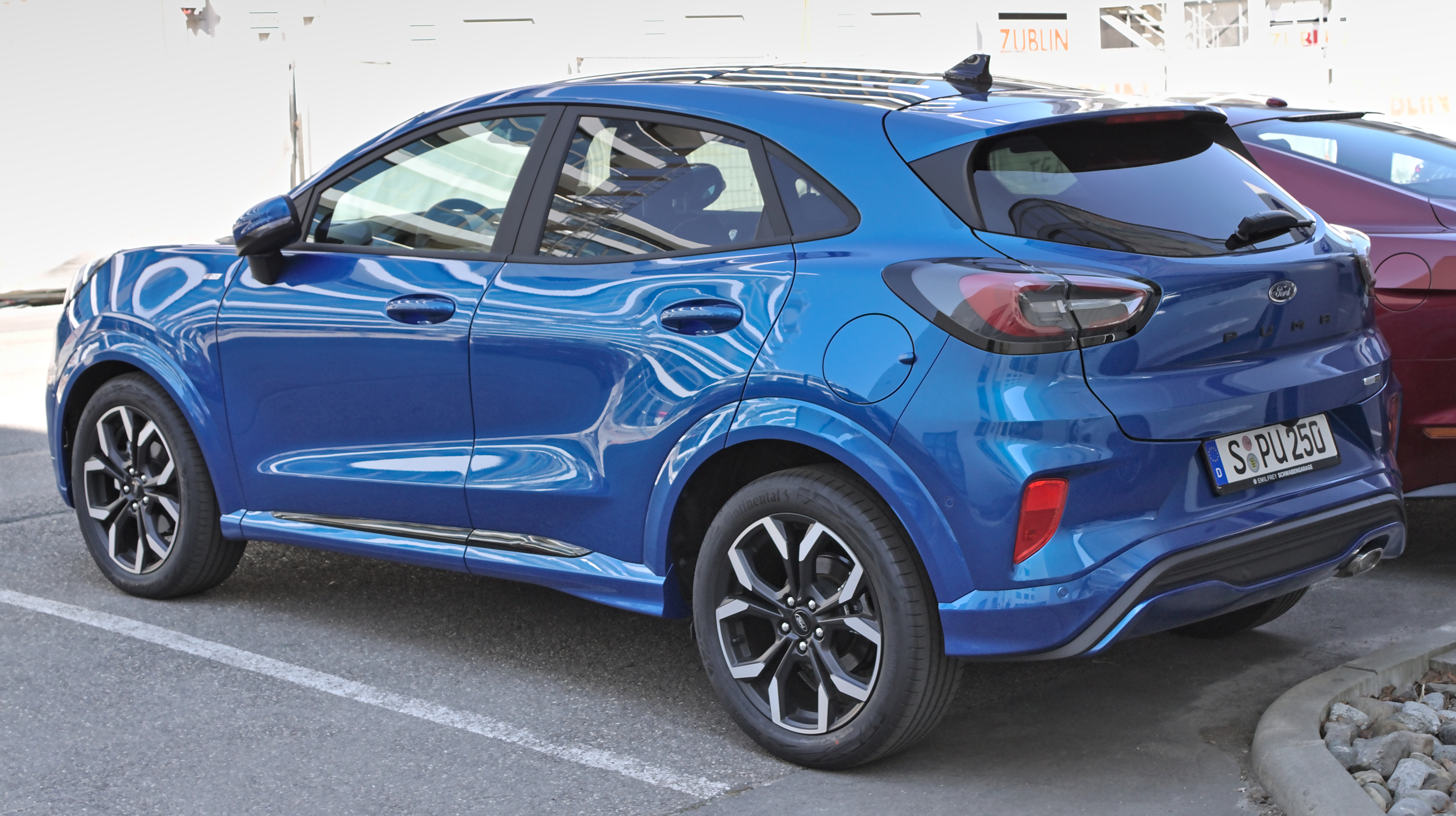 Ford_Puma_(2019) in Stuttgart-Vaihingen